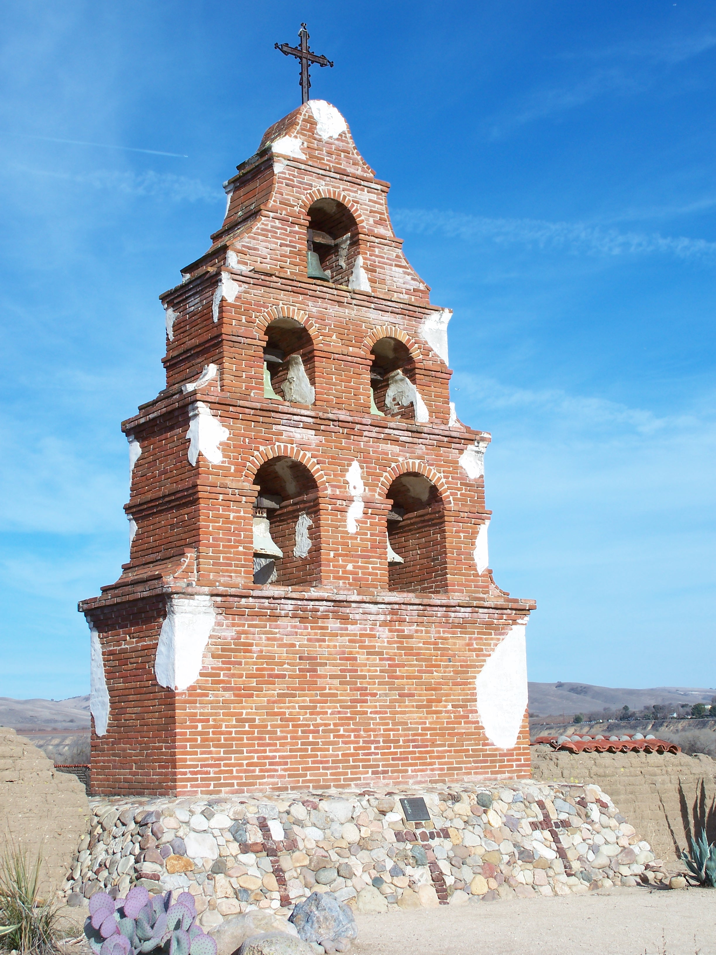 Belfry of Mission San Miguel Arcángel. San Miguel, California, USA